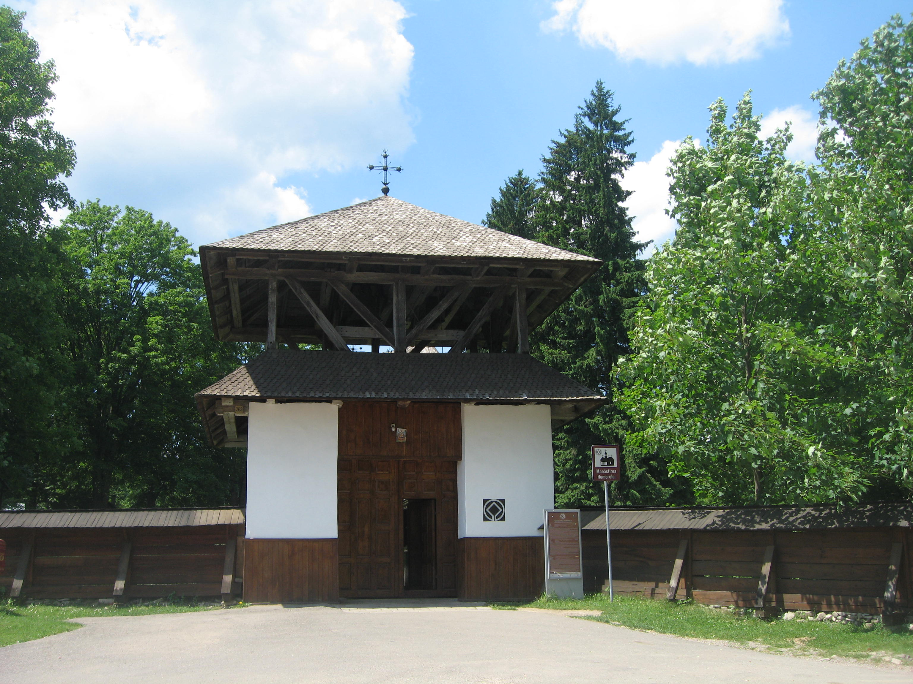 Humor Monastery